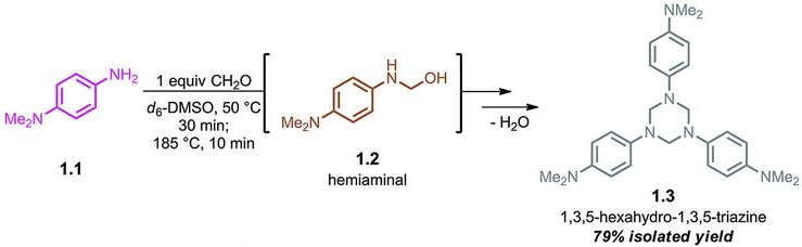 Representative model reaction using N,N-dimethyl-p-phenylene diamine (1.1) and stoichiometric paraformaldehyde. Hemiaminal 1.2 is an intermediate to hexahydrotriazine 1.3 (isolated in 79% yield).